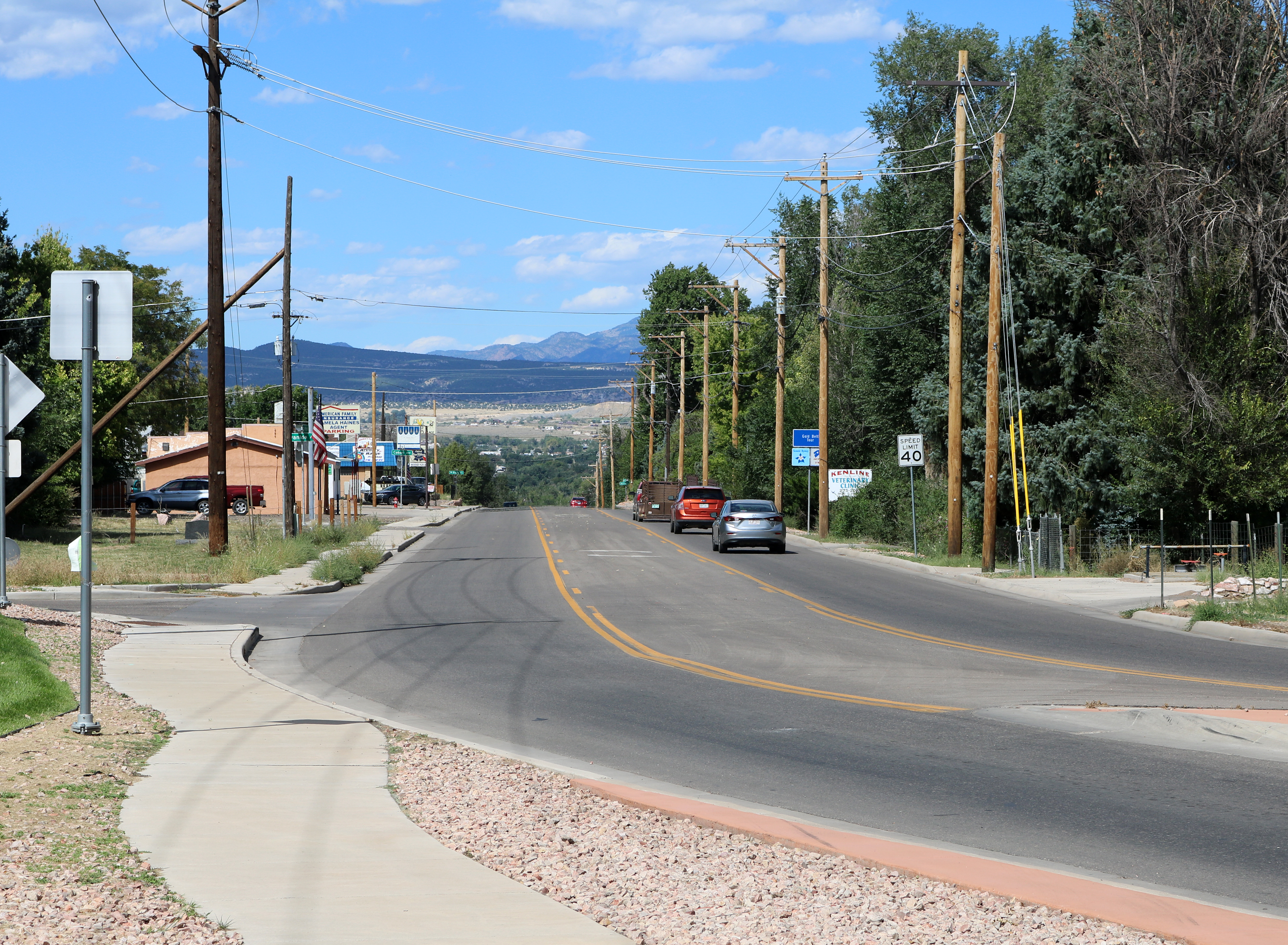 A view of Lincoln Park, Colorado, a census-designated place in Fremont County. The view is to the north from Elm Street along South 9th Street, which is also Colorado State Highway 115. Cañon City can be seen in the distance.